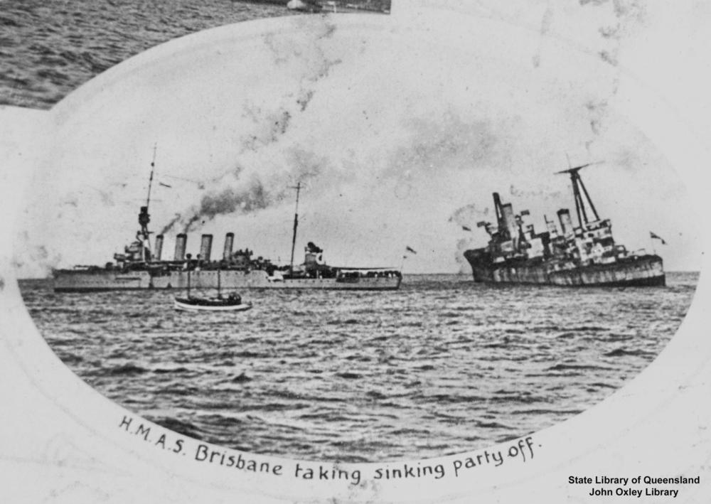 Brisbane (ship) Caption: 'H.M.A.S. Brisbane taking sinking party off'. Image shows the cruiser HMAS Brisbane recovering the scuttling party from the decommissioned battlecruiser HMAS Australia, shortly before the ship is sunk on 12 April 1924.